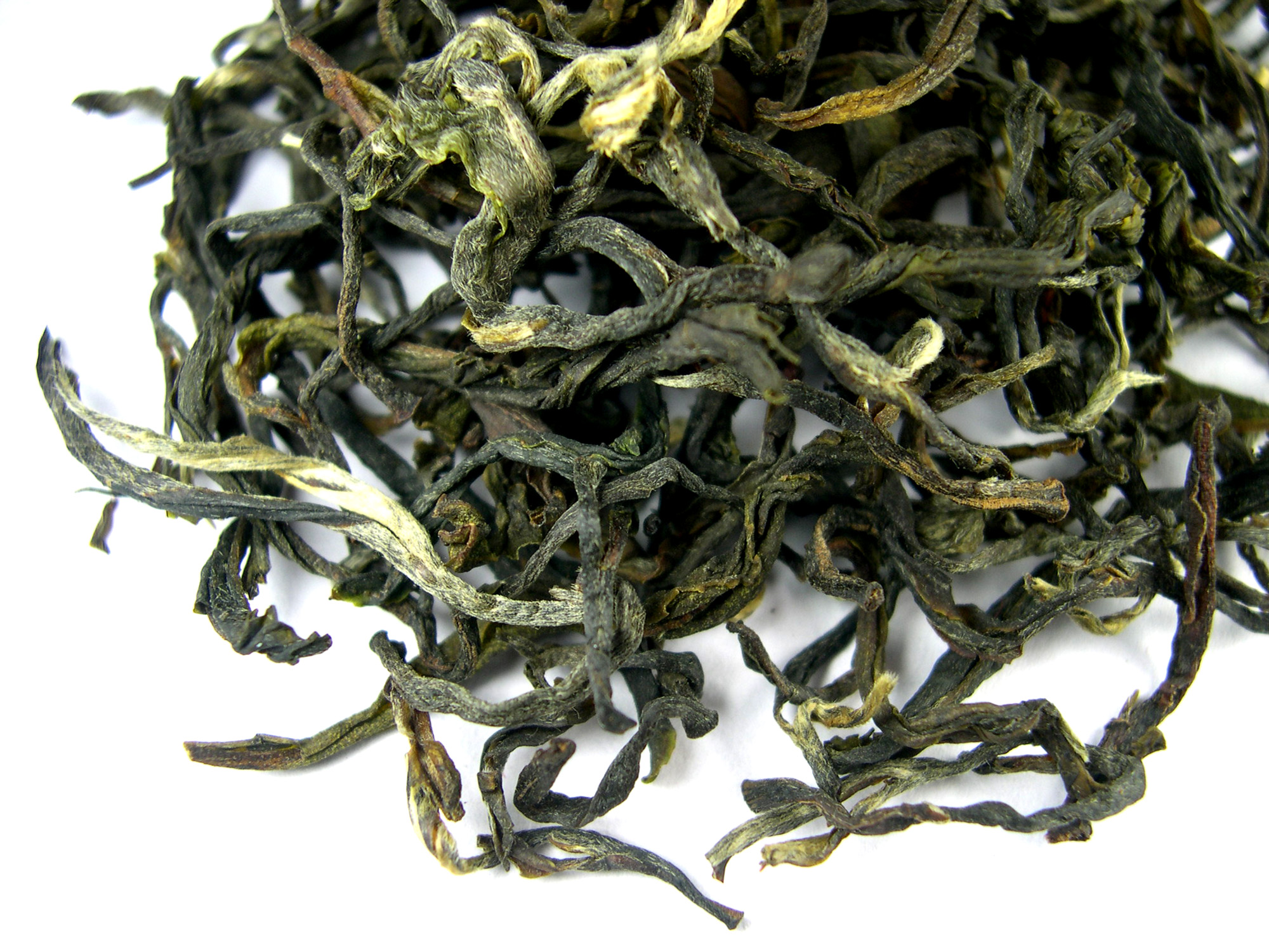 Darjeeling Oolong tea is another variety of Darjeeling Tea produced by Darjeeling Tea Plantations apart from the blacks and green teas. Most of the oolongs in Darjeeling are made from various range of clonal tea cultivar or tea bushes e.g. AV2 culativar. Darjeeling Oolong Tea has found a new place among tea lovers around the world and highly sought after. Some fine oolongs of Darjeeling are Second Flush Castleton Moonlight